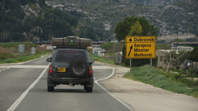 The intersection of state roads D8 and D9 (E65 and E73), Croatia.